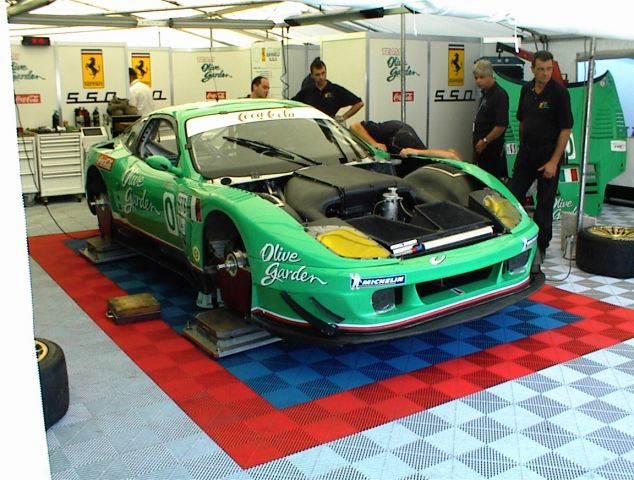 Team Olive Garden Ferrari 550 at the 2002 Grand Prix of Mosport.